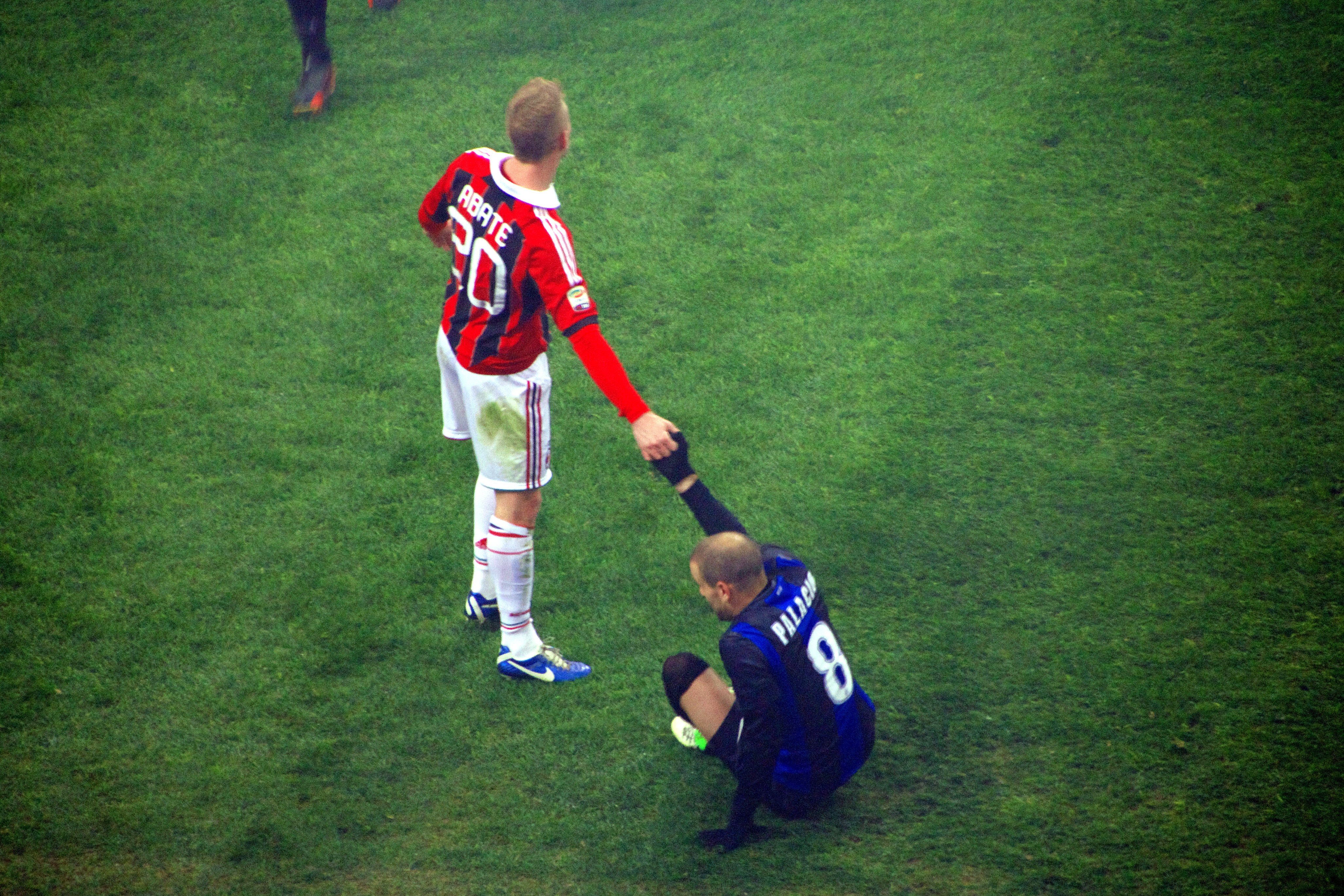 Ignazio Abate and Rodrigo Palacio in FC Internazionale Milano-AC Milan, february 2013.